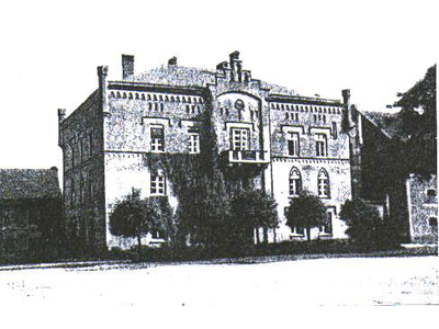 Castle in Świbie